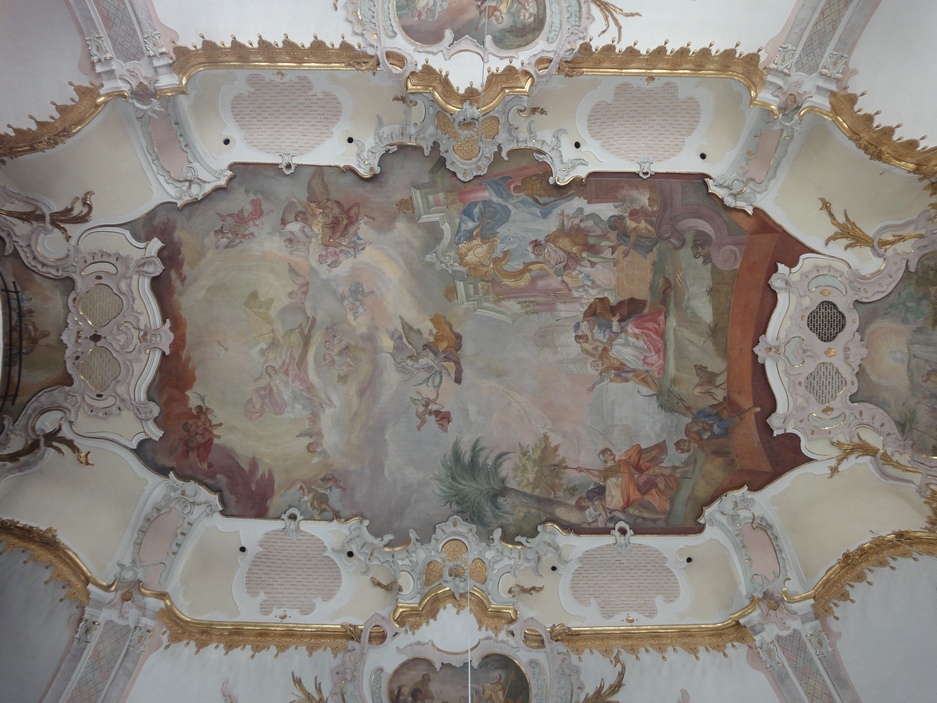 Ceiling of the church in Meitingen-Herbertshofen, Bavaria